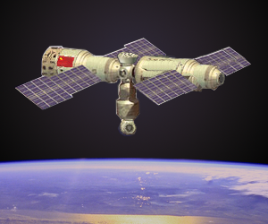 Impression of the Chinese Space Station by the artist Penyulap.